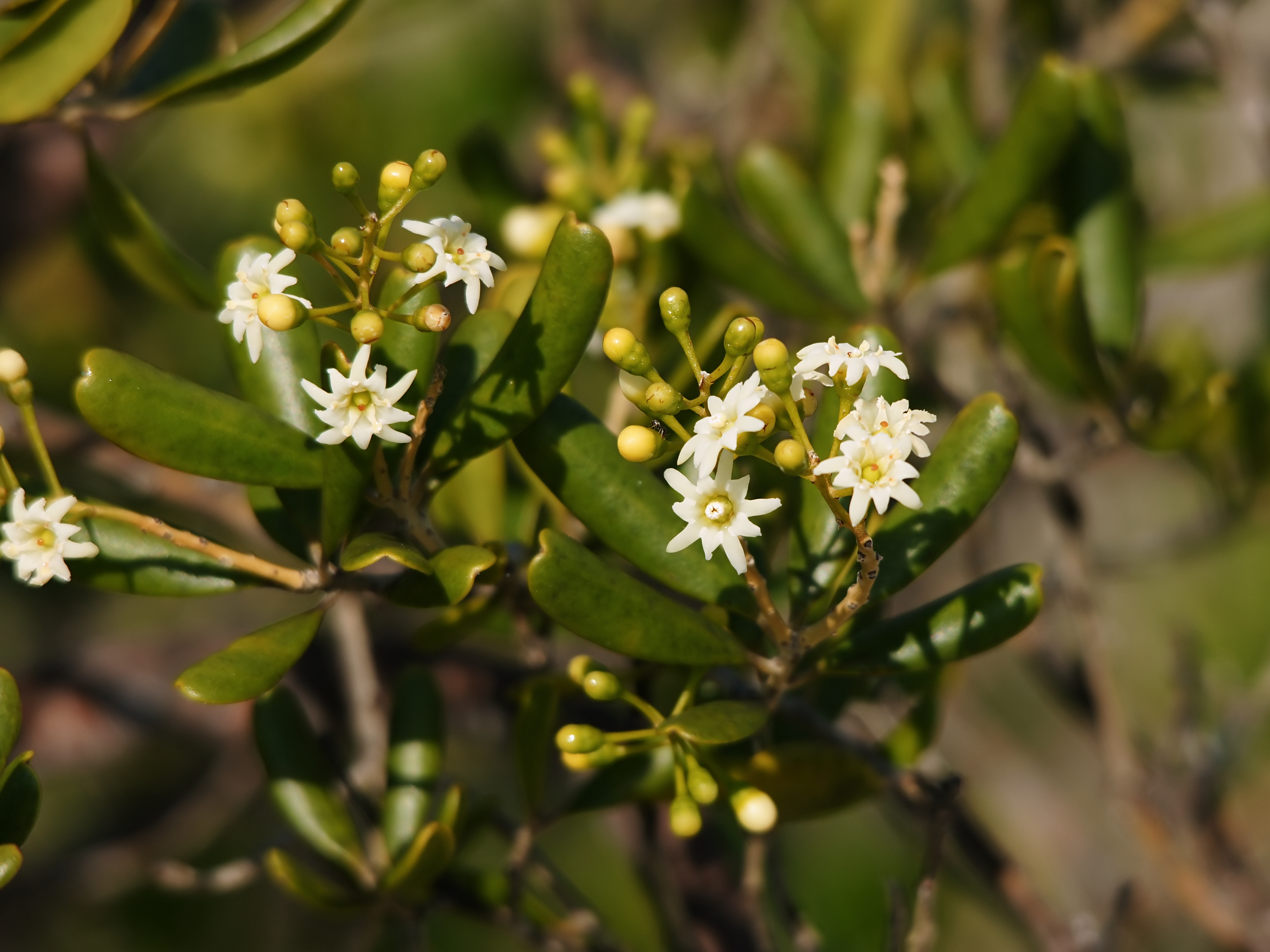 Joewood at Long Key State Park in Monroe County, Florida, U.S.A.